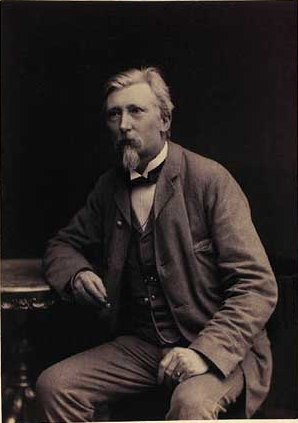 Vilhelm Bergsøe (1835-1911), Danish writer and zoologist